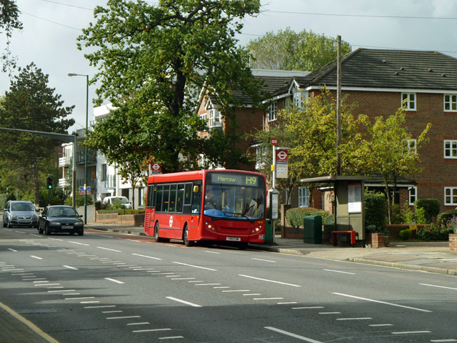 H9 bus on Kenton Road. Pausing at the Northwick Road bus stop, this is on a circular route to and from Harrow. Route H10 works the circuit in the opposite direction. The bus is London Sovereign's fleet number DE85.